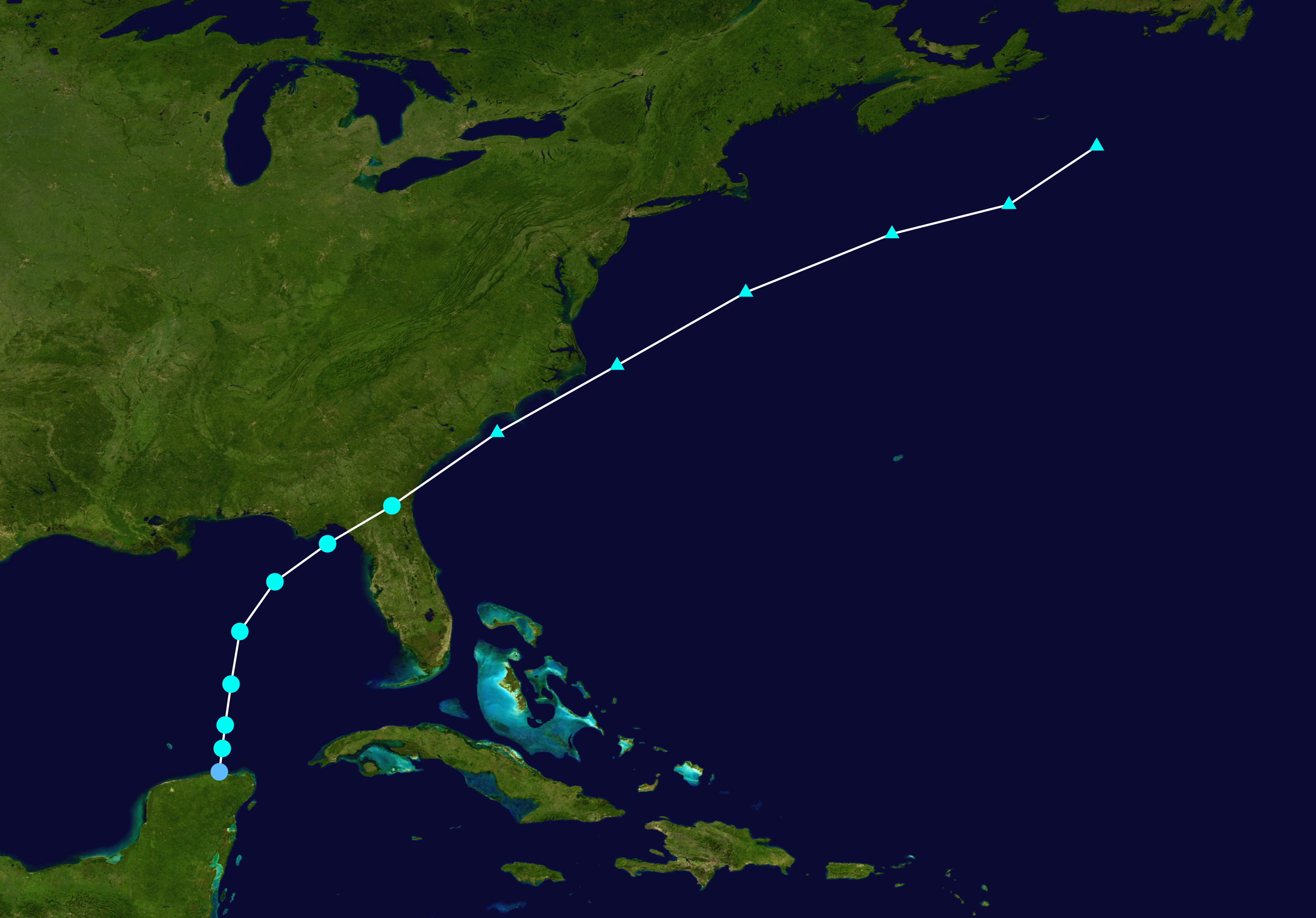 Track map of Tropical Storm Colin of the 2016 Atlantic hurricane season. The points show the location of the storm at 6-hour intervals. The colour represents the storm's maximum sustained wind speeds as classified in the Saffir–Simpson scale (see below), and the shape of the data points represent the nature of the storm, according to the legend below. Saffir–Simpson scale Tropical depression≤38 mph≤62 km/h Category 3111–129 mph178–208 km/h Tropical storm39–73 mph63–118 km/h Category 4130–156 mph209–251 km/h Category 174–95 mph119–153 km/h Category 5≥157 mph≥252 km/h Category 296–110 mph154–177 km/h Unknown Storm type Tropical cyclone Subtropical cyclone Extratropical cyclone / Remnant low / Tropical disturbance / Monsoon depression